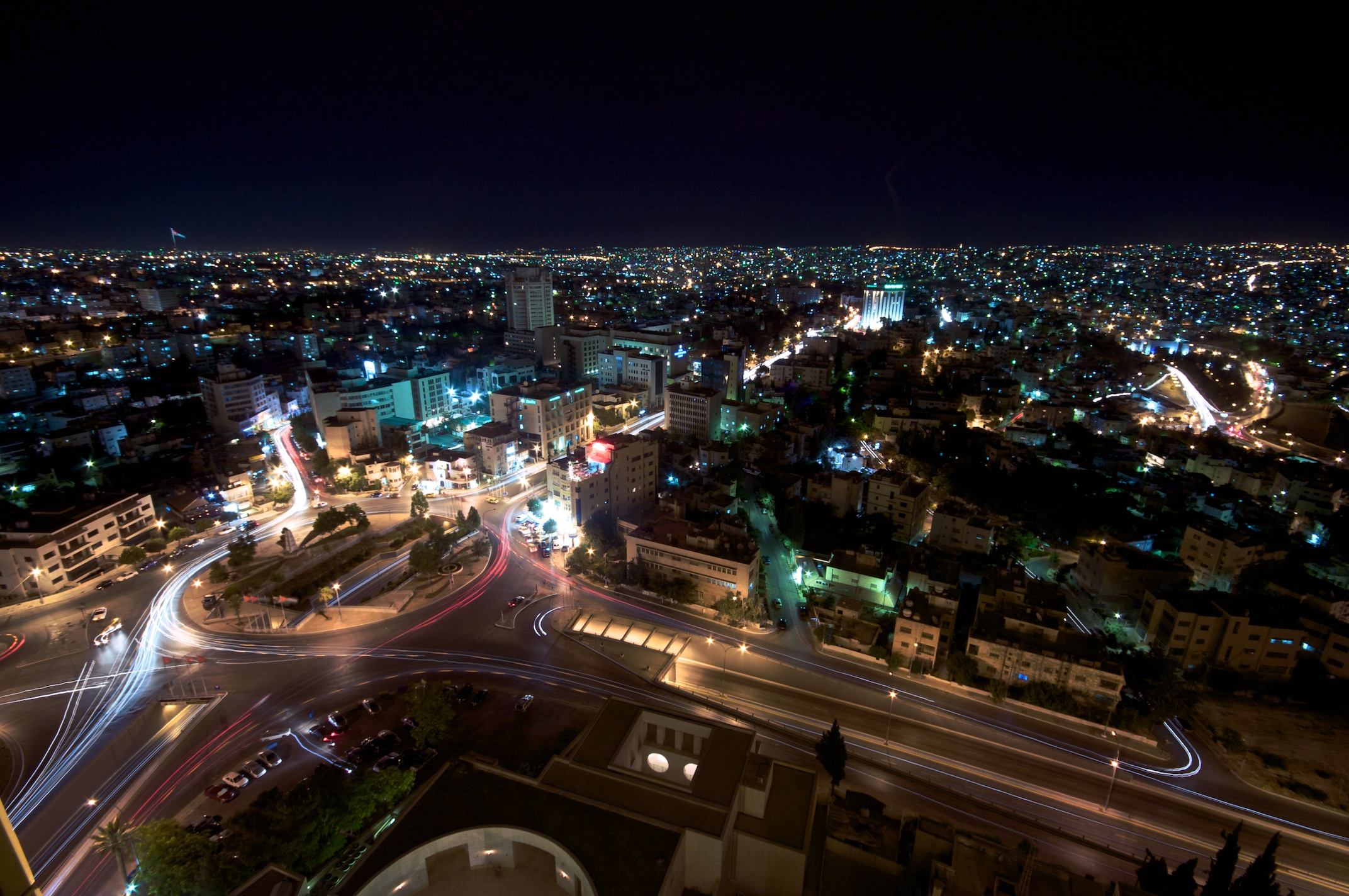 Amman at Night, 2009.